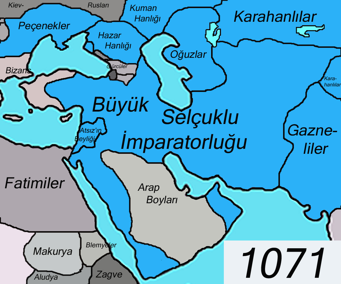 Lands ruled by Turkic peoples in the immediate aftermath of the battle of Manzikert.